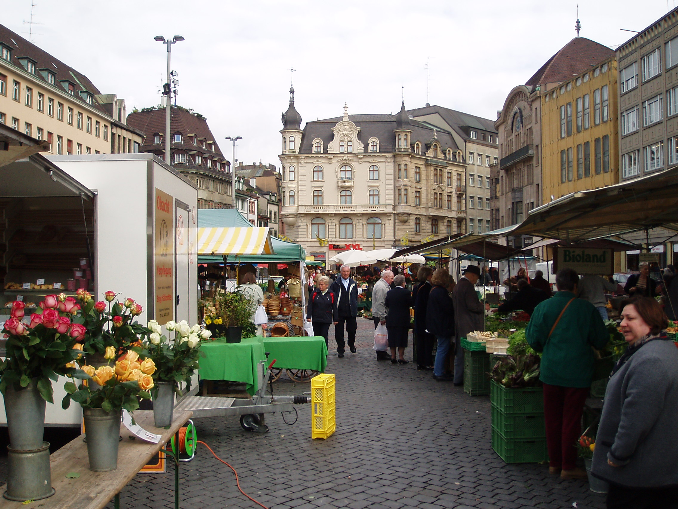 Basel Market on Marktplatz